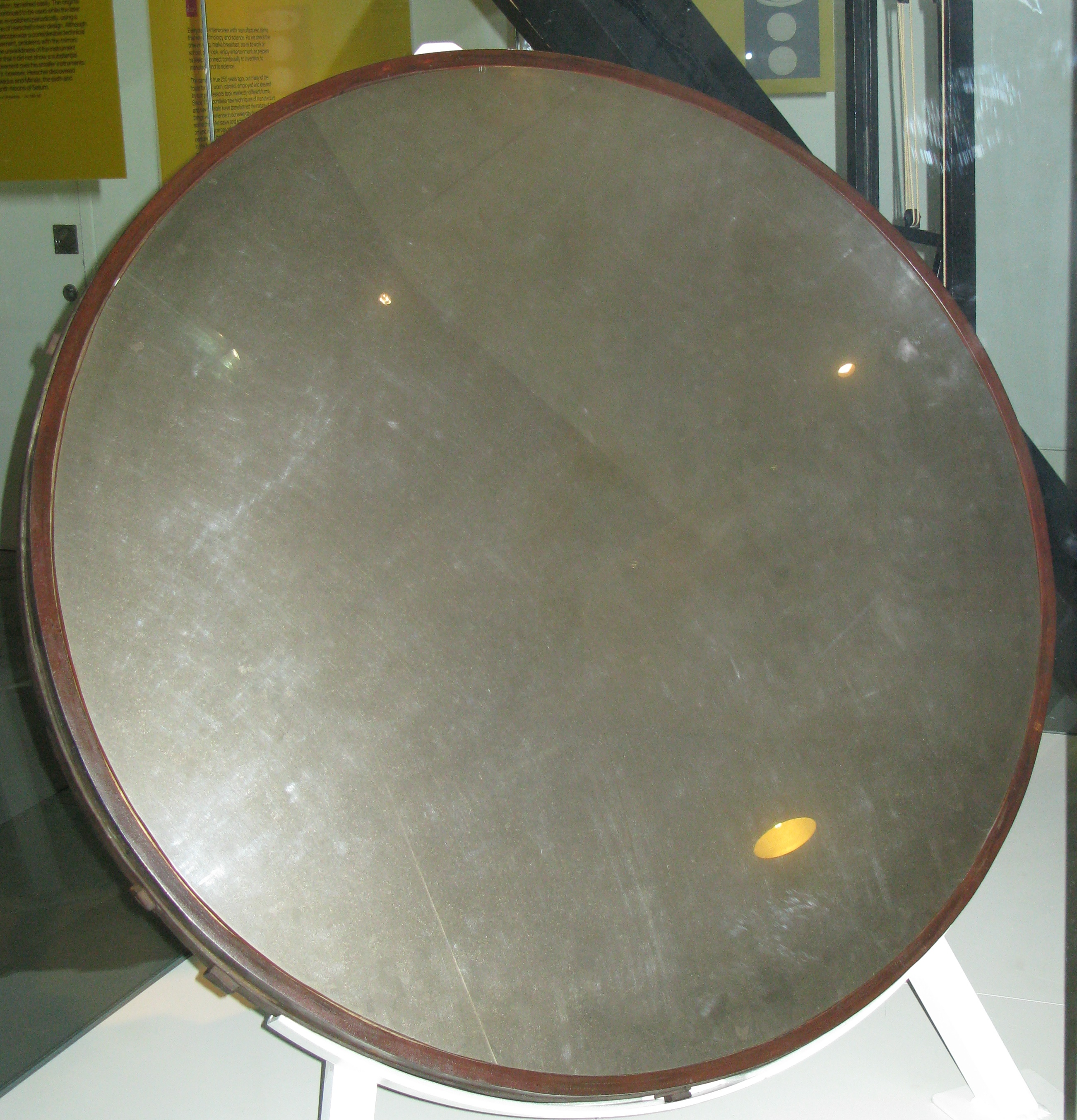 Photo for the first speculum metal mirror made for William Herschel's 40-foot telescope on display in the science museum.